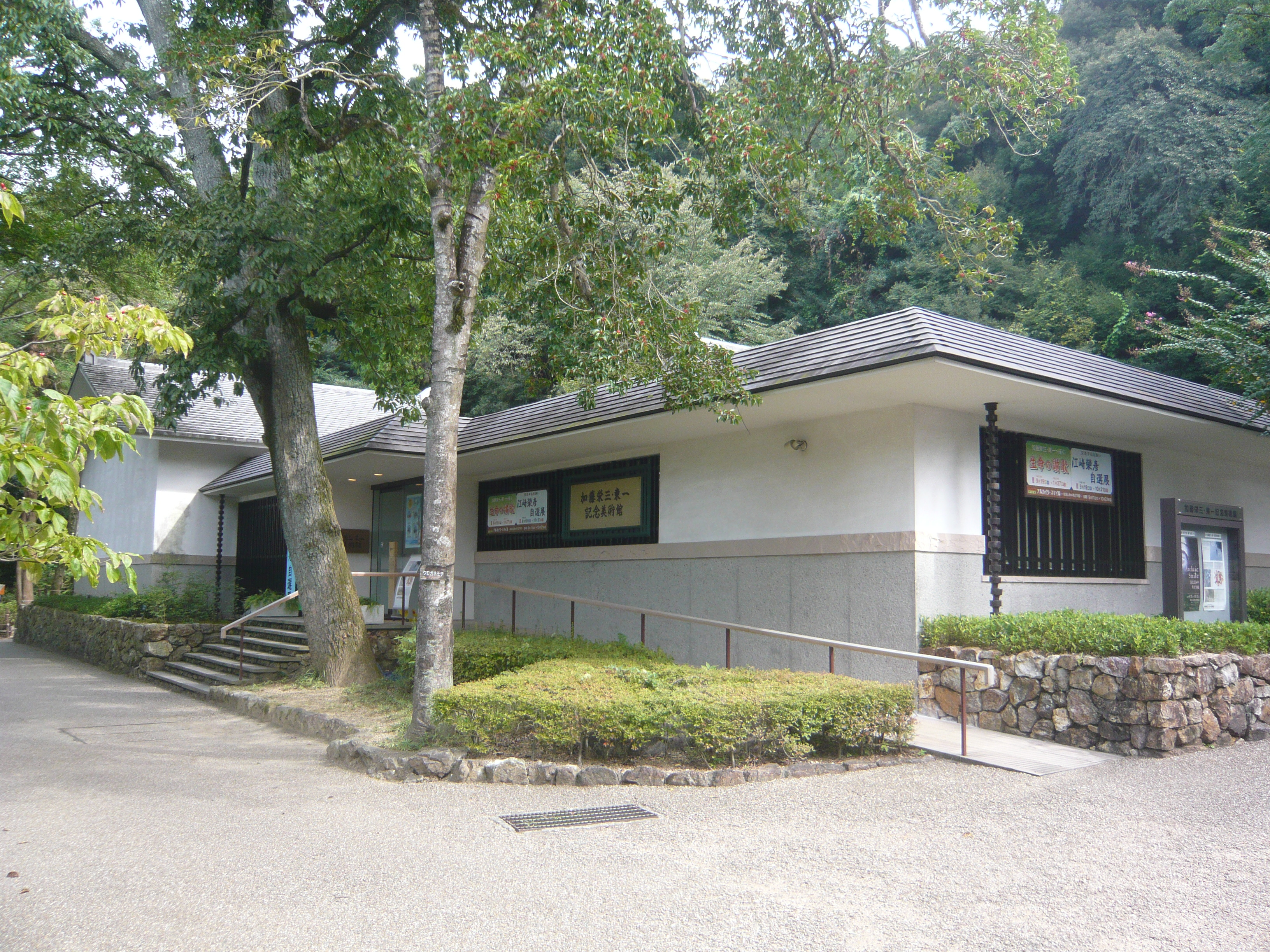 Gifu City Museum of History 加藤栄三・東一記念美術館（岐阜市歴史博物館）,Gifu,Gifu,Japan（岐阜県岐阜市）で撮影。